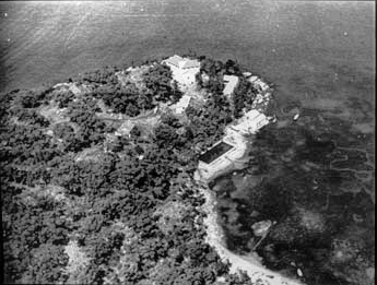 Aerial view of buildings of Cronulla Fisheries Research Centre in 1923.